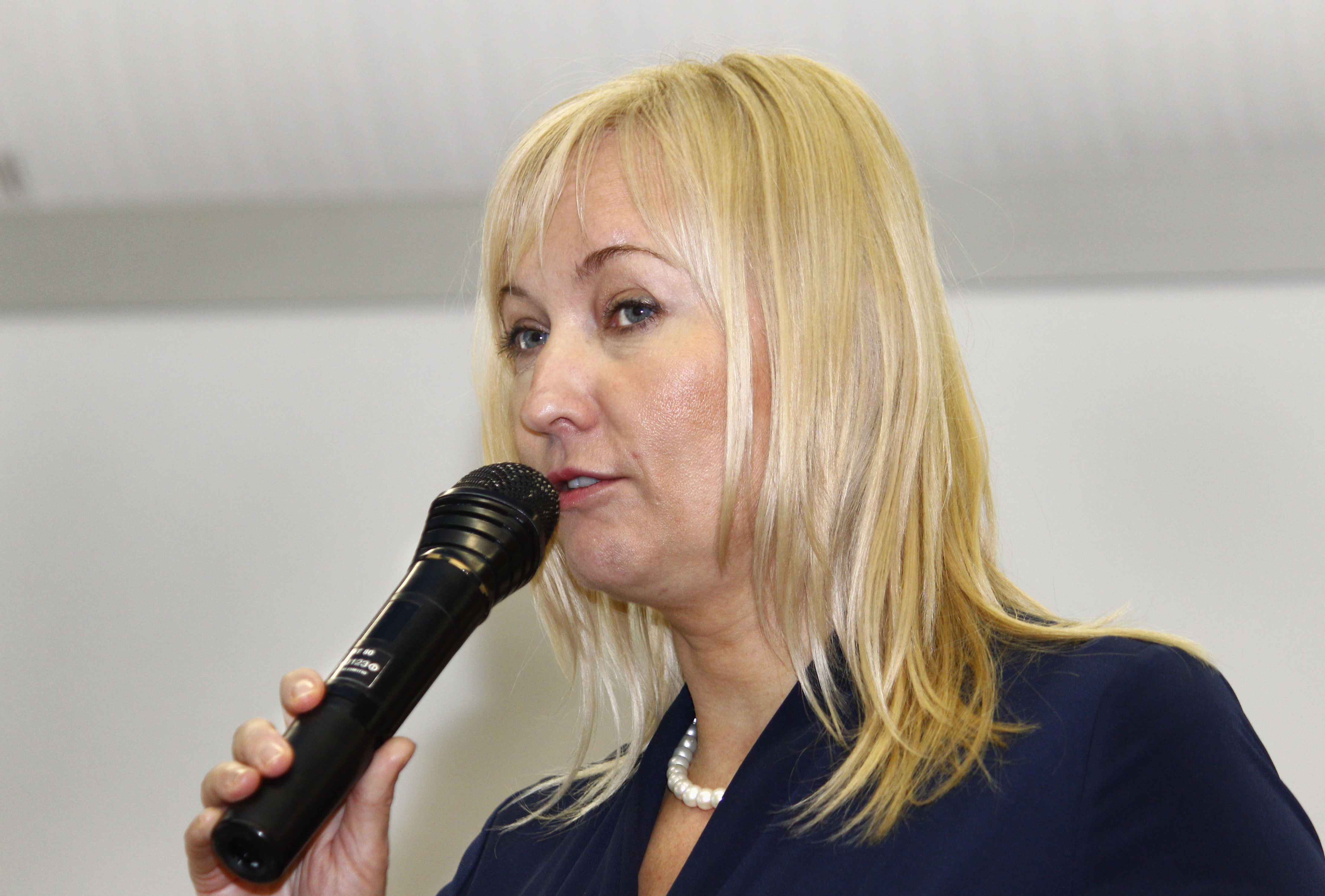 Czech writer Alena Ježková